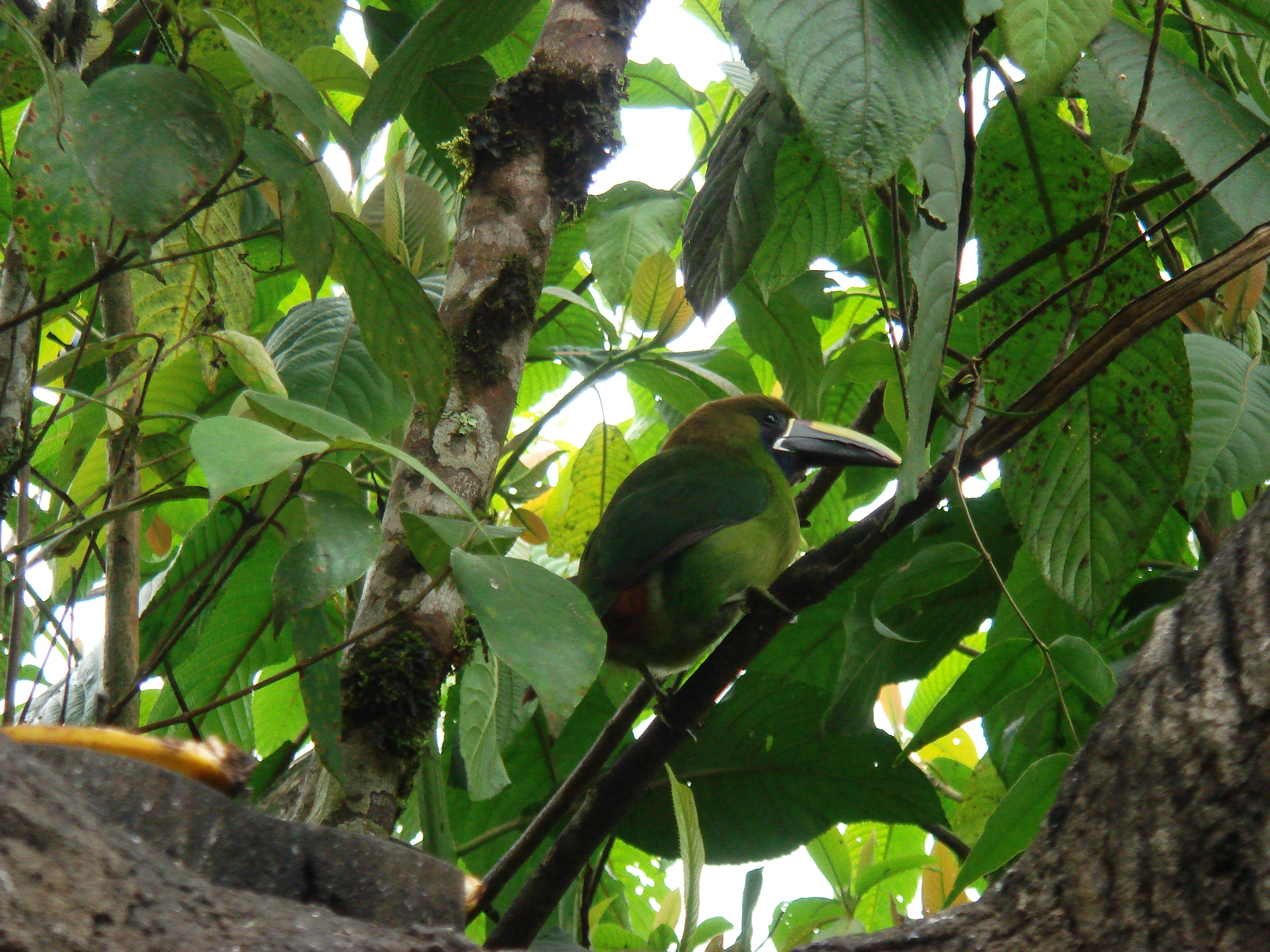 Emerald Toucanet in Costa Rica.